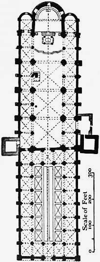 Plan of Sant'Ambrogio. Illustration from 1911 Encyclopædia Britannica, article Architecture.